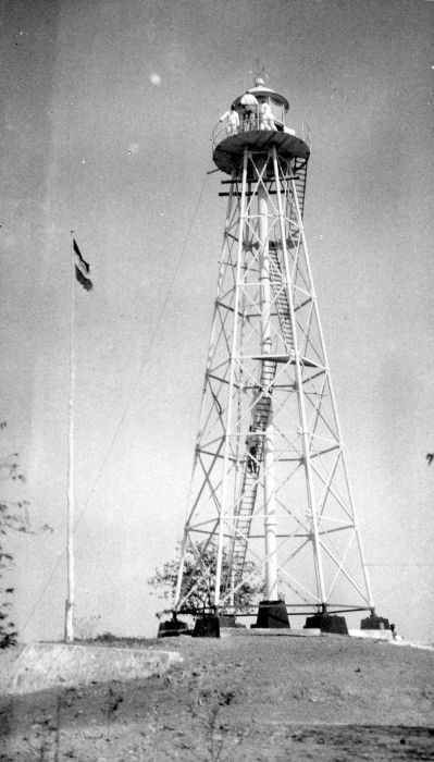 Lighthouse on the island Lyran